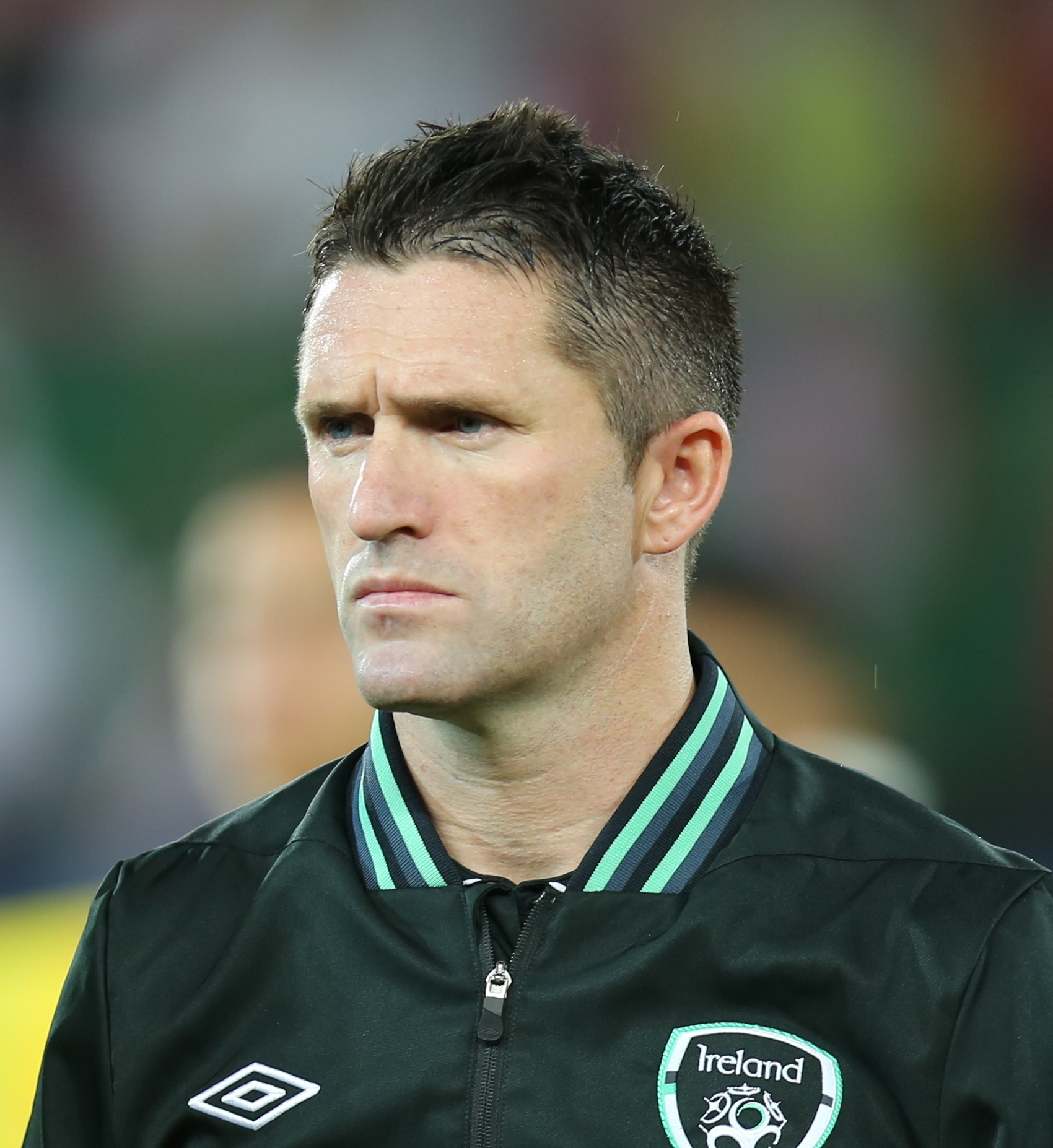 2014 FIFA World Cup qualification (UEFA), Group C: Republic of Ireland national football team at 10. September 2013 before the match against the Austria national football team (0:1) in the Ernst-Happel-Stadion in Vienna. Here:Robbie Keane, irish striker The making of this work was supported by Wikimedia Austria. For other files made with the support of Wikimedia Austria, please see the category Supported by Wikimedia Österreich.